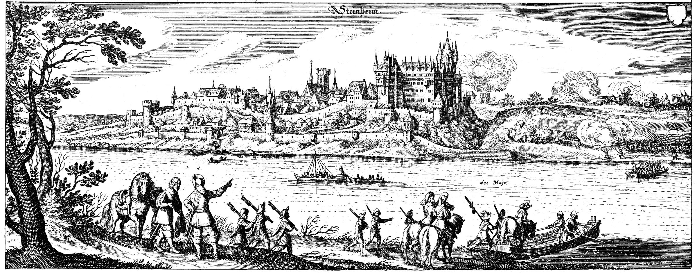 This is a scan of the historical document: Title: Steinheim - Topographia Hassiae language: german